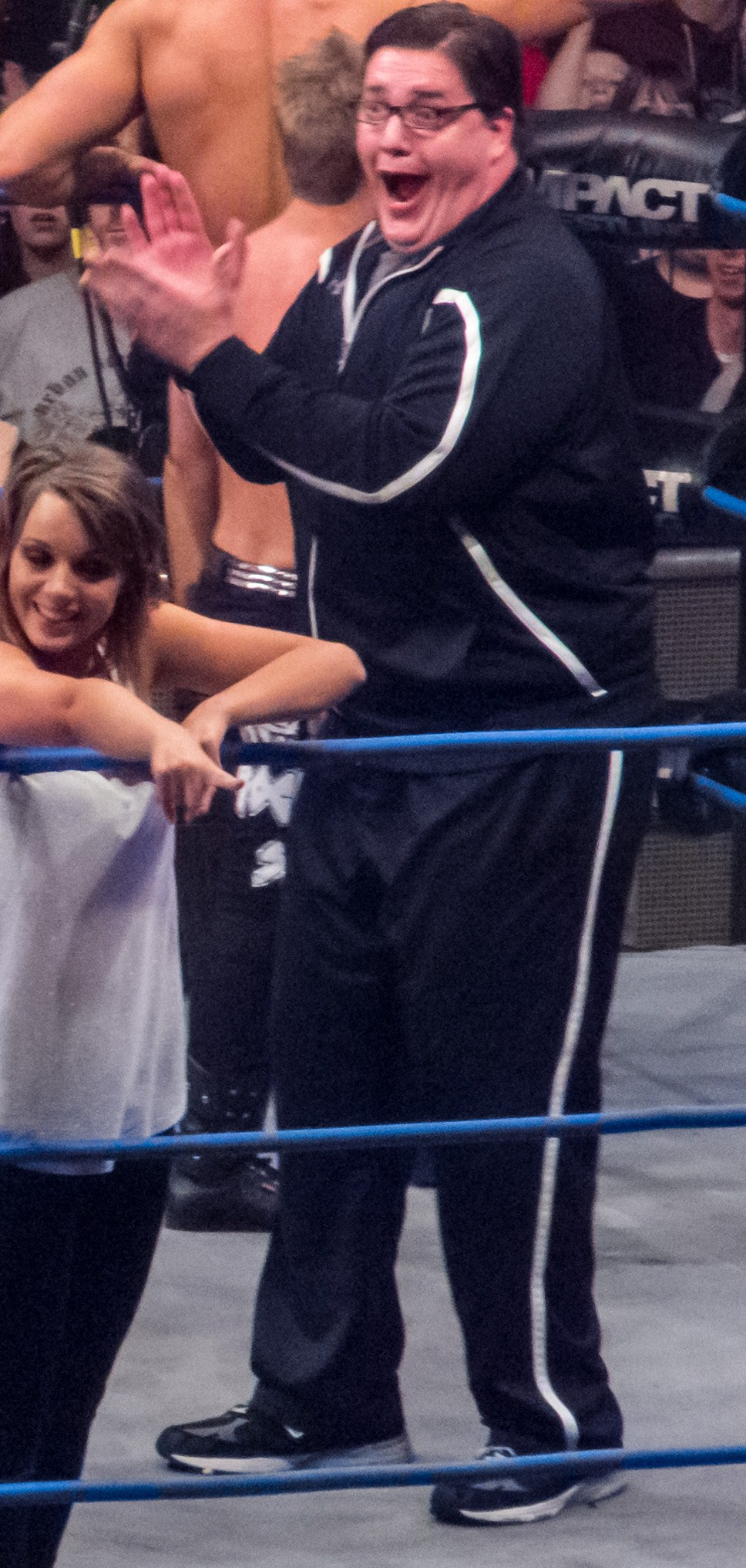 Joseph Park at the Impact! TV Tapings in Wembley, England on January 26, 2013.